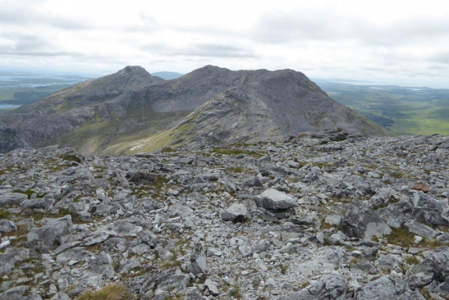 Bengower (back left) and Benbreen's summit ridge (Benbreen North Top, Benbreen Central Top, and Benbreen) from the summit of Bencollaghduff, Twelve Bens, Ireland